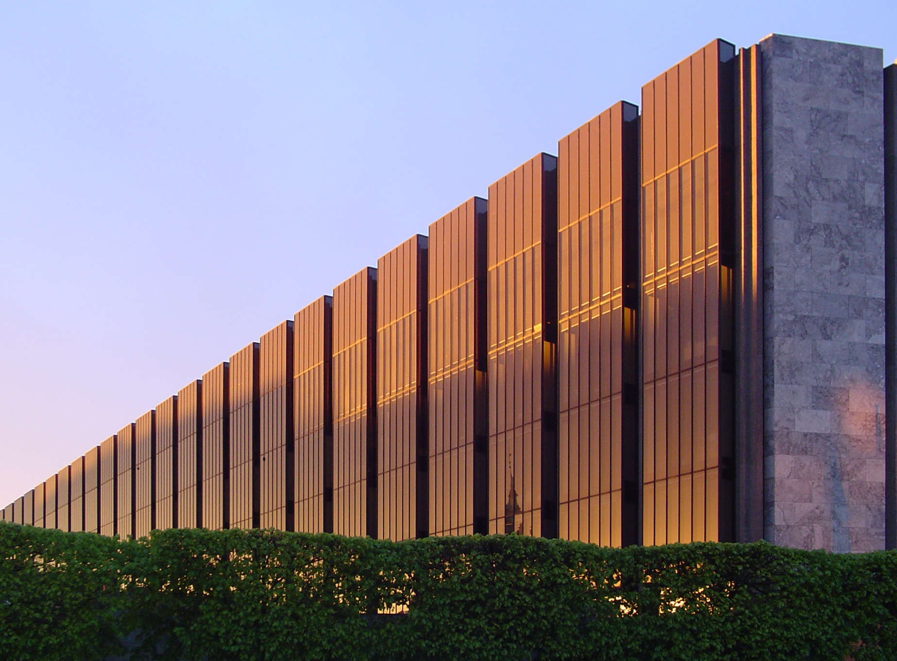 The Danish National Bank. Taken by me on 15/5-2005.